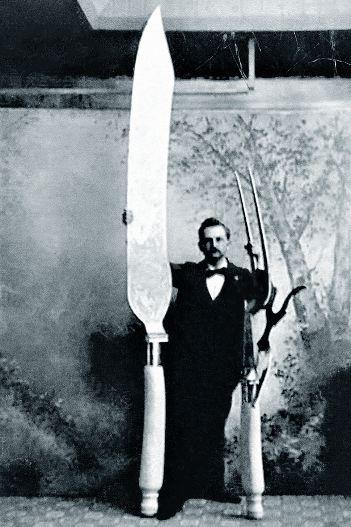 Photograph of an outsized carving knife and fork made by Beaver Falls Cutlery Works, Beaver Falls, Pennsylvania. The knife measured 9 feet 7 inches long. The handles were each made from a whole elephant's tusk, and were carved. The steel knife blade and the fork guard were etched with portraits, pictures and designs. Chinese workers, who were contracted between 1872 and 1877 at the works, helped to make these. The present whereabouts of the knife and fork is unknown.